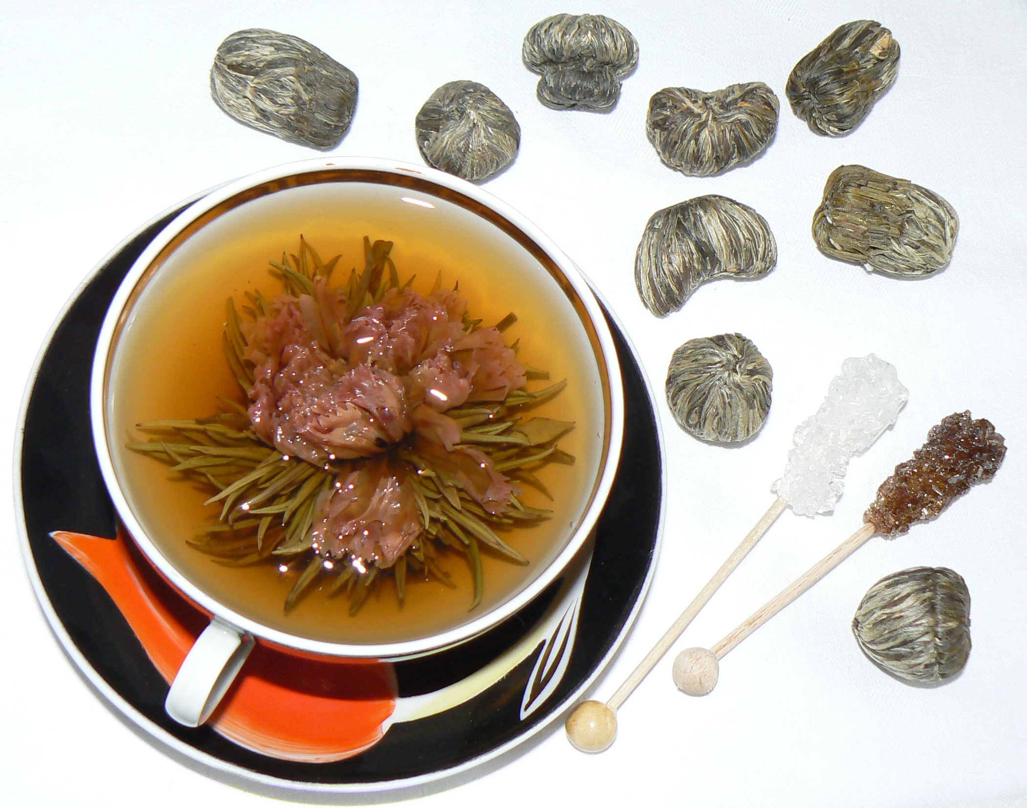 Flowering tea, infused in a cup of water and various kinds of bundles, in dry form. The two sticks are rock candy lollies made of crystallised sugar.